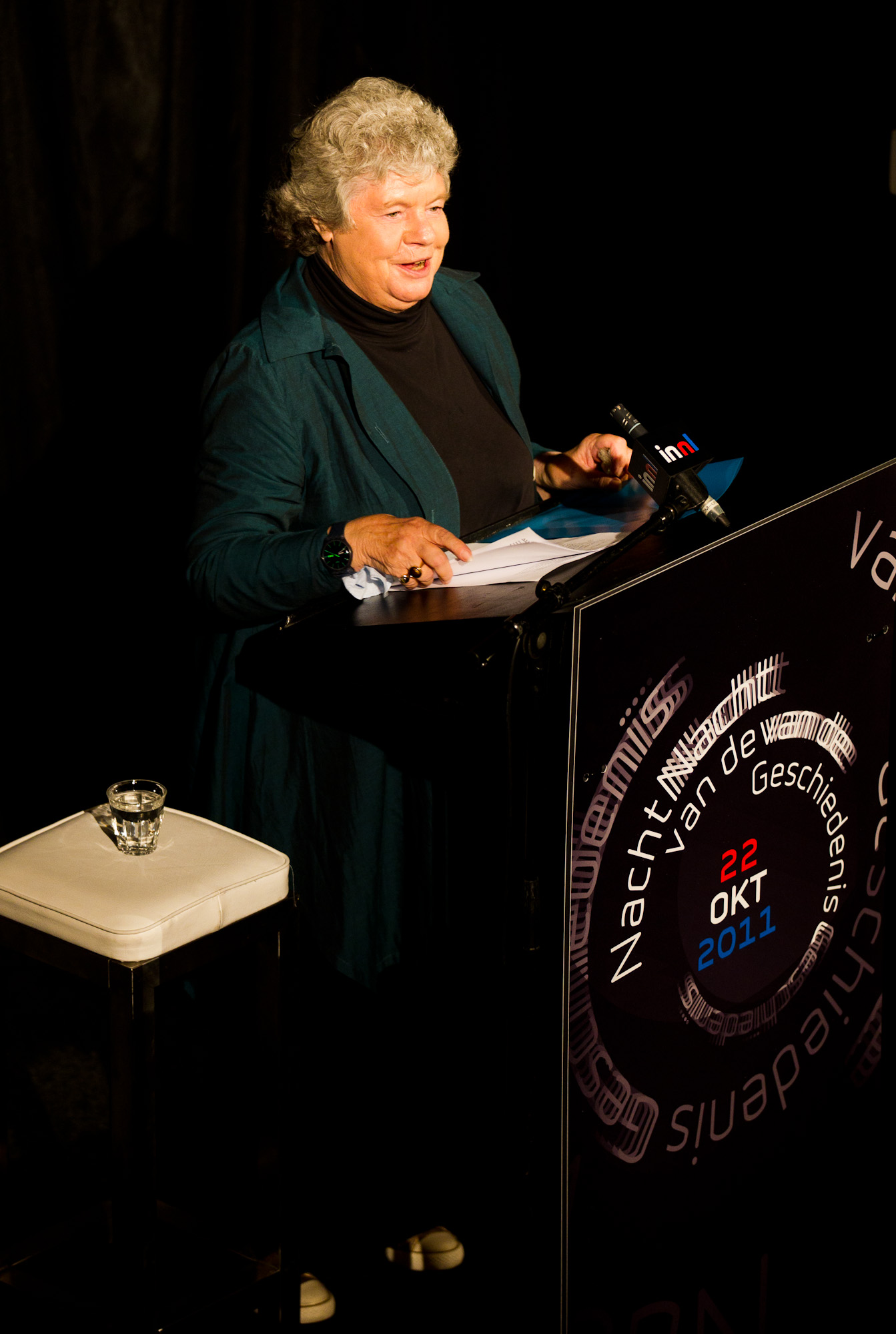 A. S. Byatt speaking in Amsterdam, 22 Oct. 2011